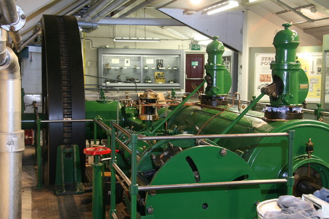 Uniflow steam engine, Bradford Industrial Museum, 3 km from Farsley, Leeds, Great Britain. This is the 1921 Newton, Bean & Mitchell uniflow engine from Linton Mill SE0063 : Linton Mills . This view includes the Eastwood patent isochronous governor that adjusts the cut off of the positively actuated piston drop valves. The engine also has automatic compression relief valves. This was seen in steam and the fact that several covers are off allowed me to immediately appreciate the way that the governor adjusts the main steam valve eccentrics - something that had been troubling me for the best part of a year.